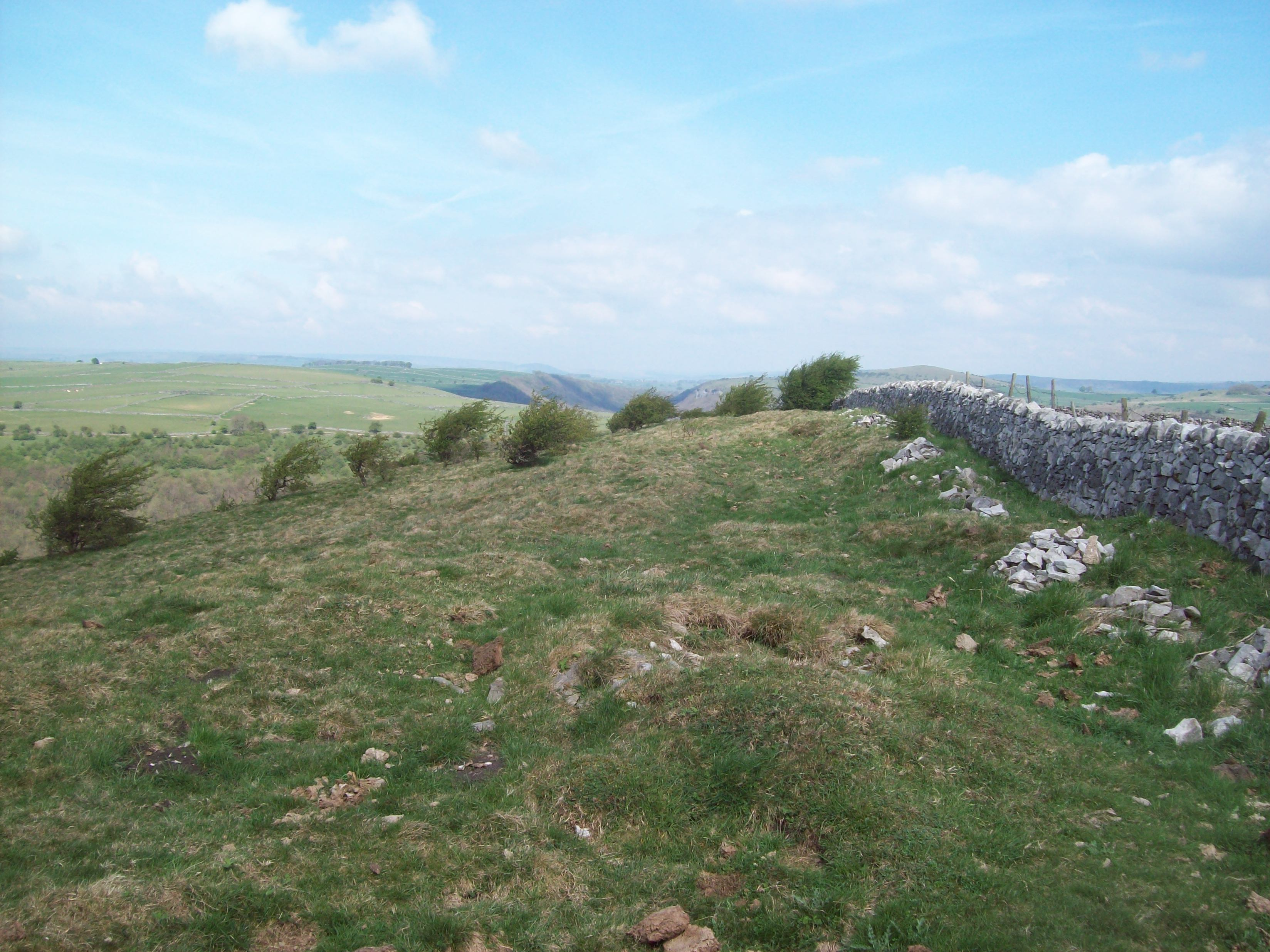 Summit of Fin Cop